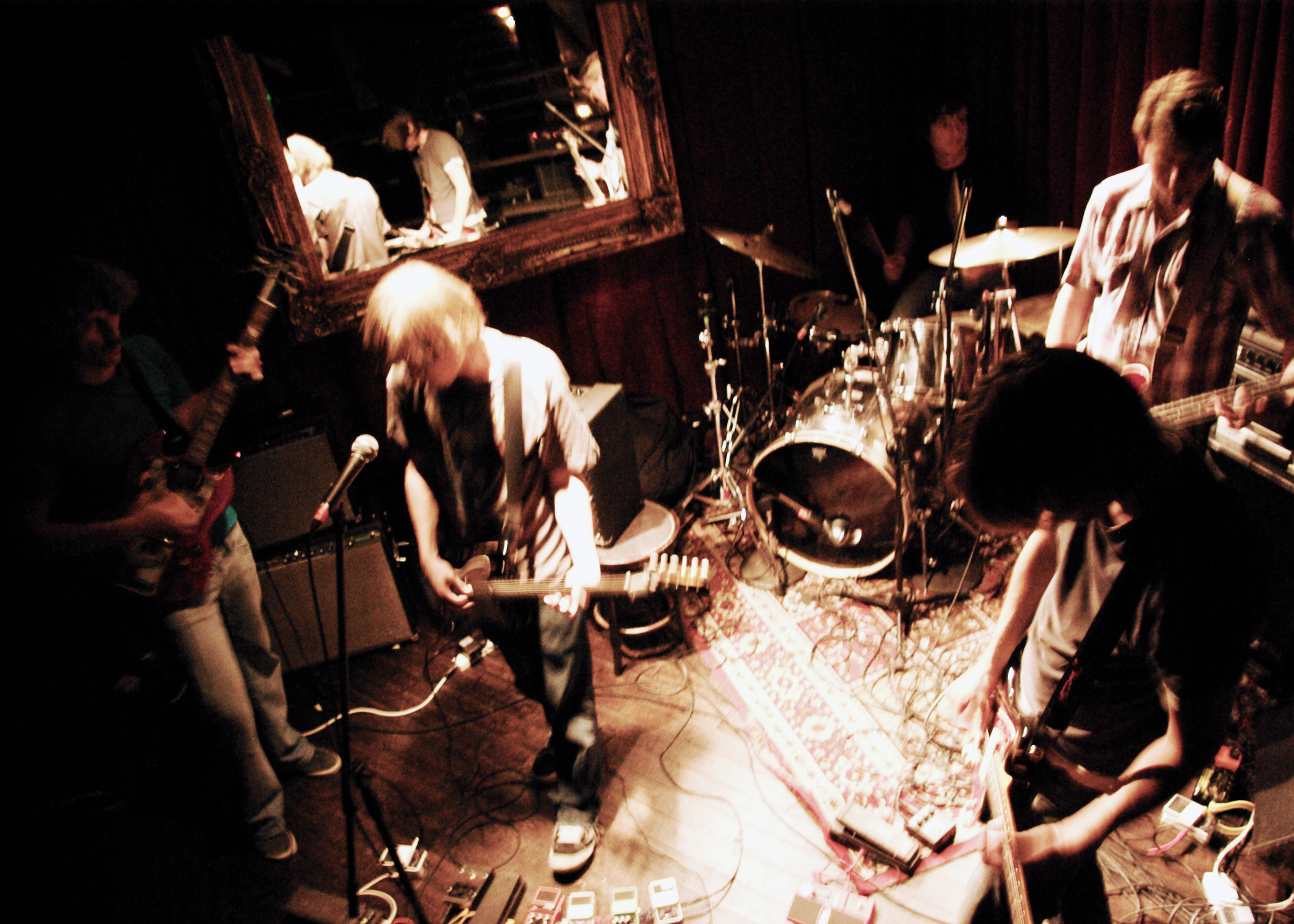 One Unique Signal featuring James Messenger, Byron Jackson, Daniel Davis, James Beal and Nick Keech (L-R)